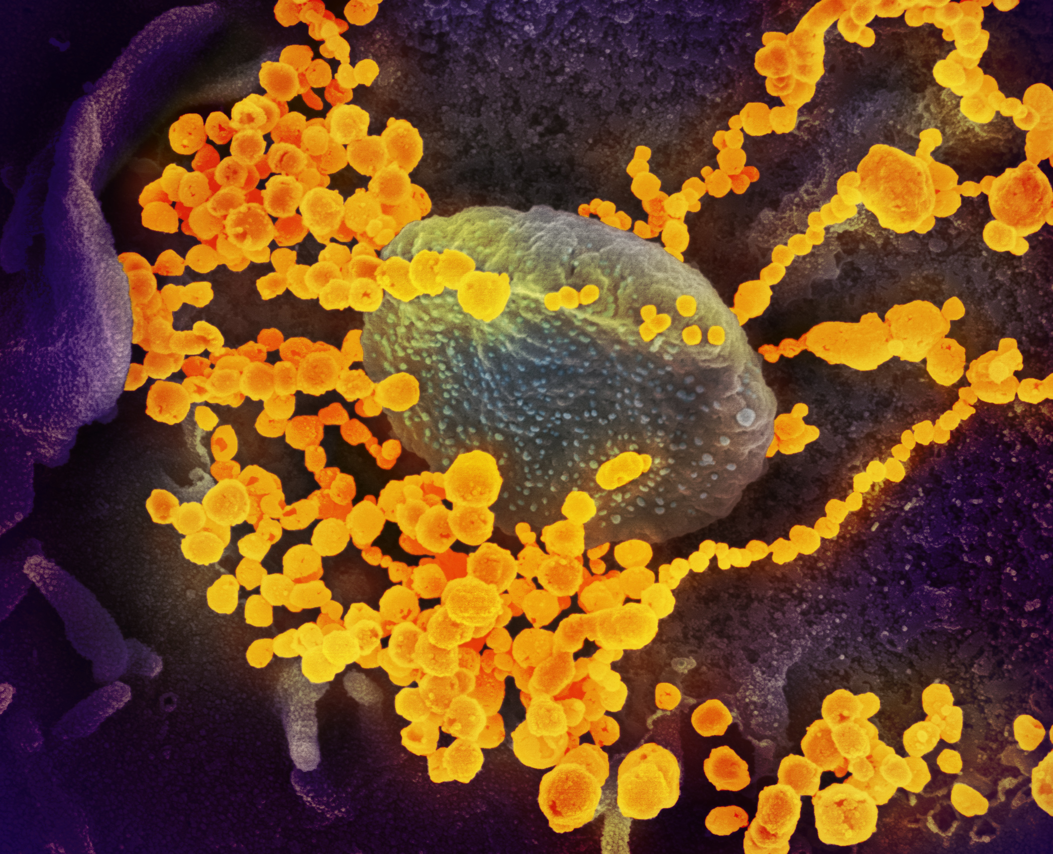 Novel Coronavirus SARS-CoV-2 ; This scanning electron microscope image shows SARS-CoV-2 (round gold objects) emerging from the surface of cells cultured in the lab. SARS-CoV-2, also known as 2019-nCoV, is the virus that causes COVID-19. The virus shown was isolated from a patient in the U.S. Credit: NIAID-RML